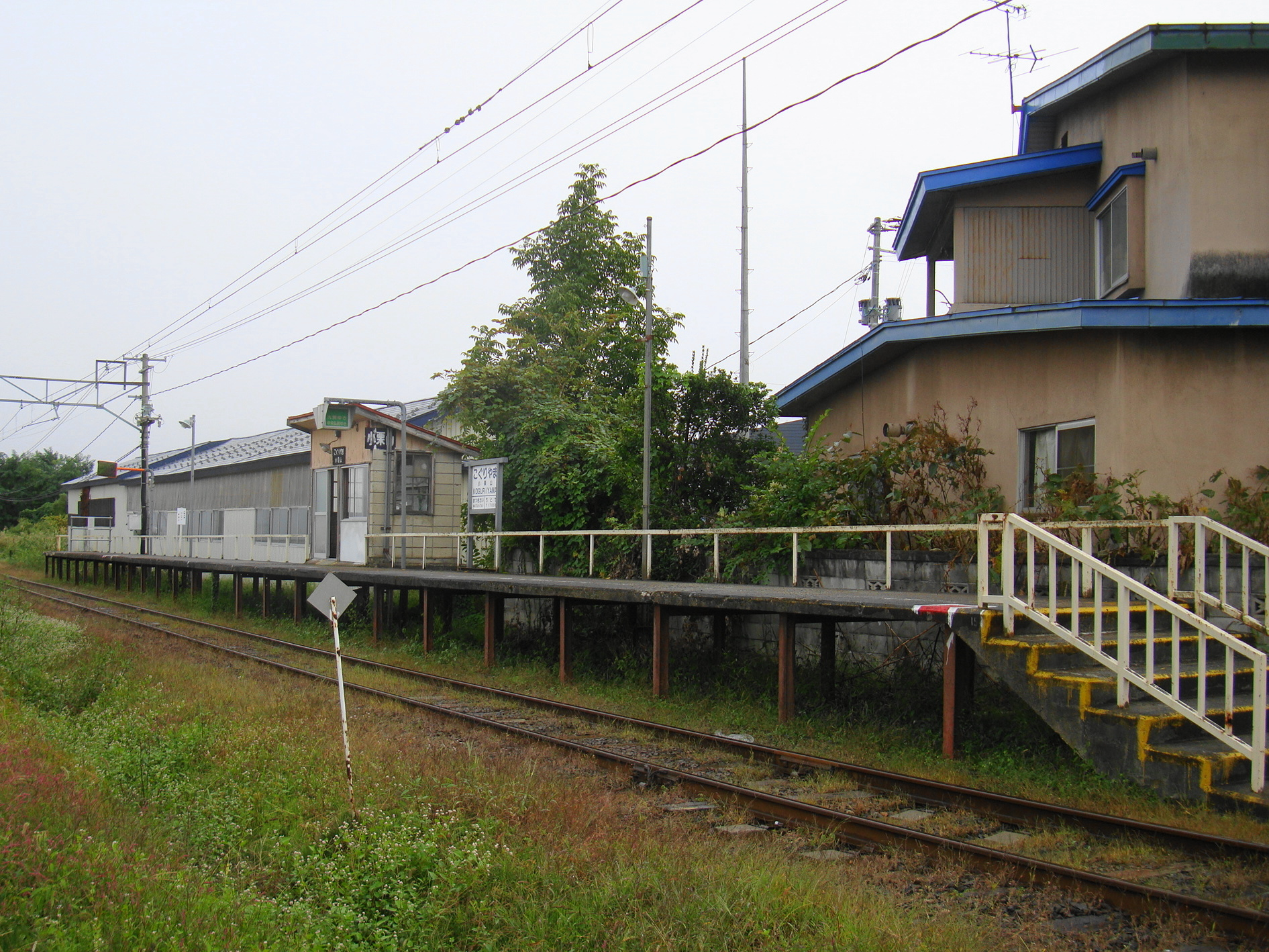 Koguriyama Station